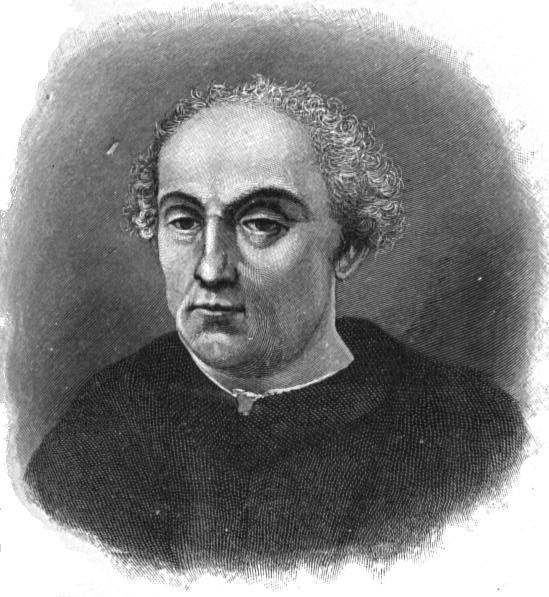 An engraving of Christopher Columbus, based on a 16th-century (?) portrait: see "File:CristobalColon2.jpg" and [1]. [The engraving was misidentified in the source as being a portrait of Paolo dal Pozzo Toscanelli.]